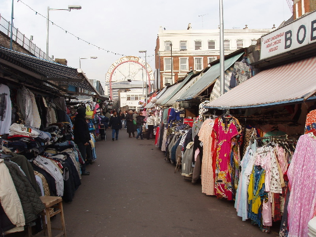 Shepherd's Bush Market The Hammersmith and City line of London Underground runs along behind the stalls at the left, and there are more shops in arches under the railway. The market runs both sides of the railway between Goldhawk Road and Uxbridge Road. The arch visible beyond the stalls is on Uxbridge Road. It is a large market with useful specialist shops as well as many greengrocers and clothes stalls. I was visiting a shop to buy a long curtain rail when I took this photo.